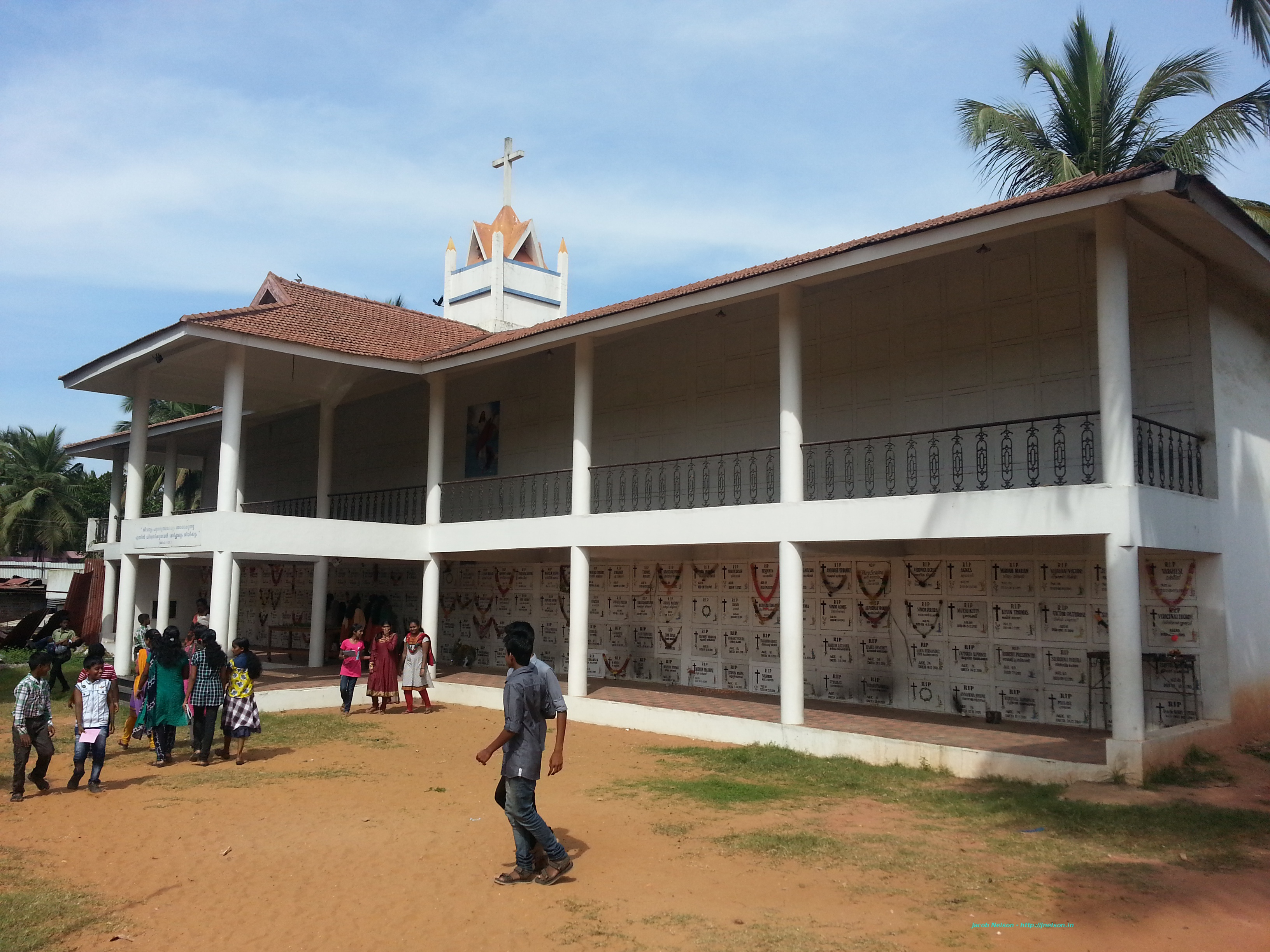 Cemetery Vault at Vettukad Madre De Deus Church Vettukad